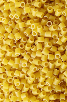 Italian Pasta